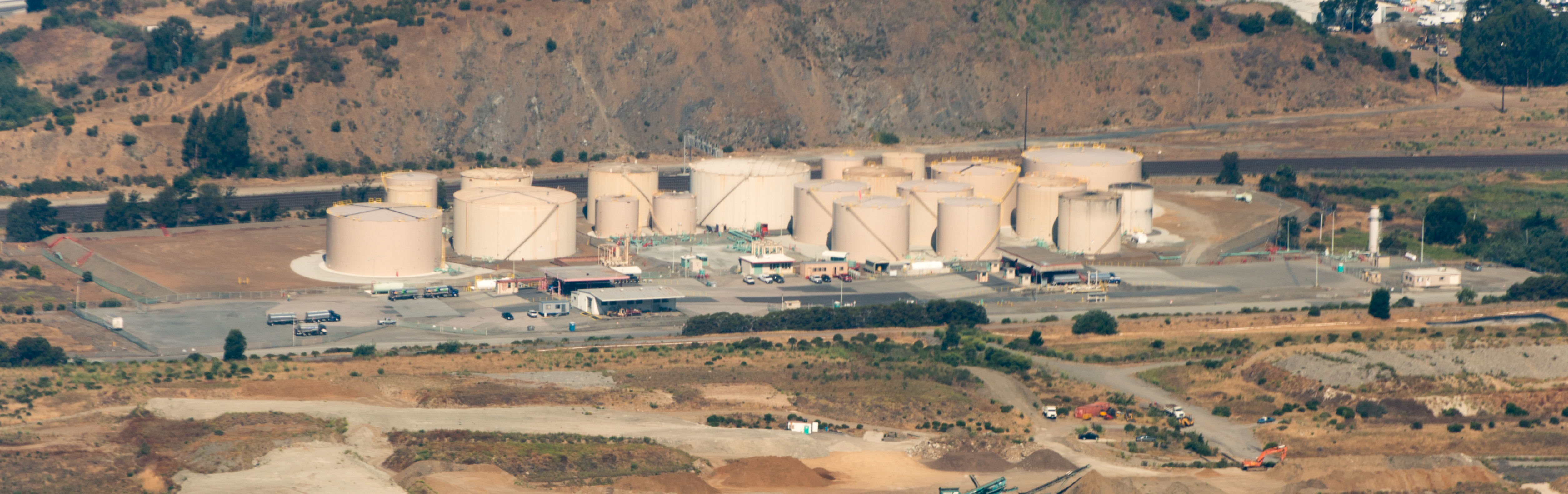 Kinder Morgan is an energy company - according to the 20 tanks here contain 618,000 barrels of petroleum products.